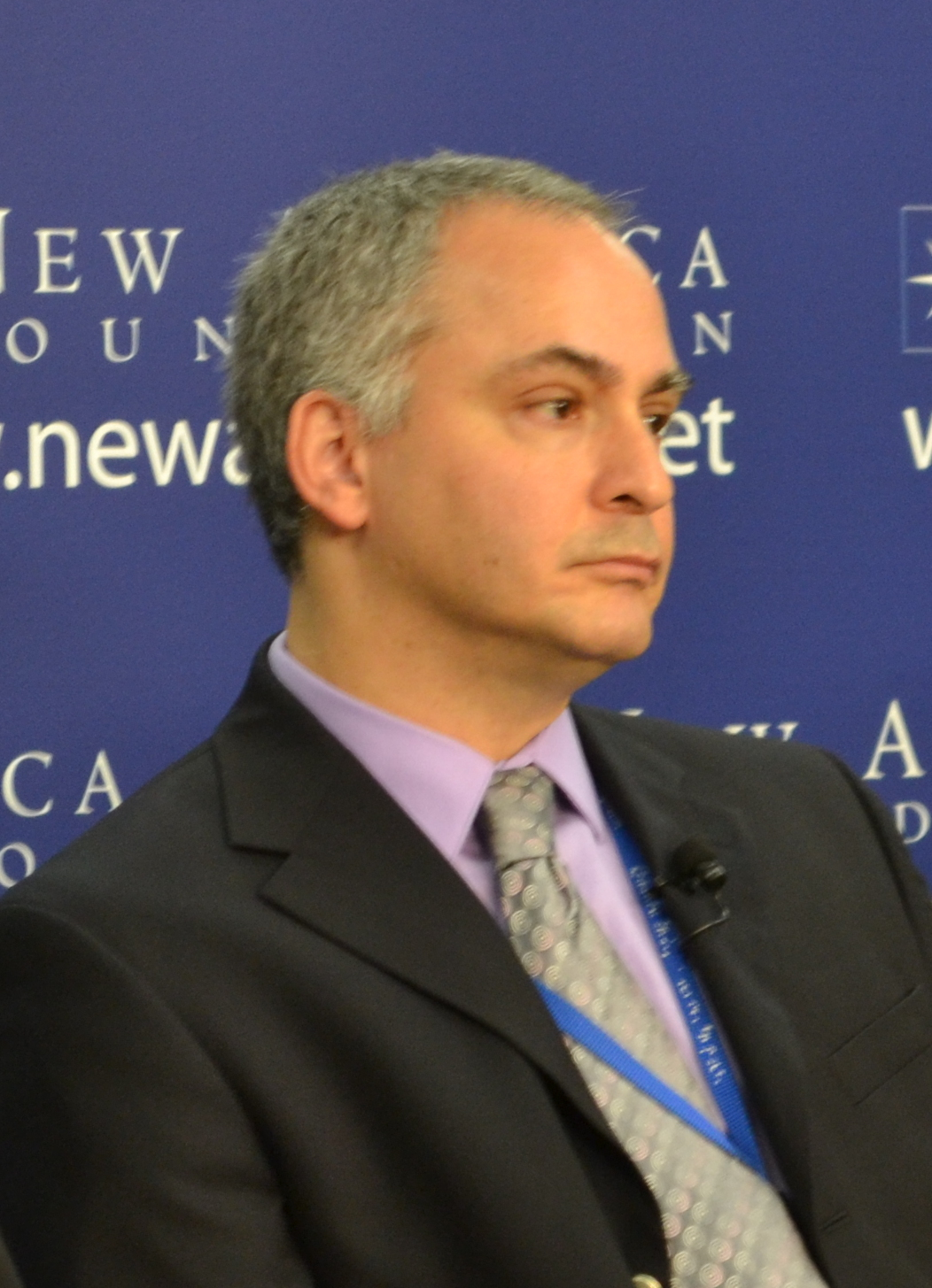 Micah Zenko, Benjamin Wittes, and Peter Bergen